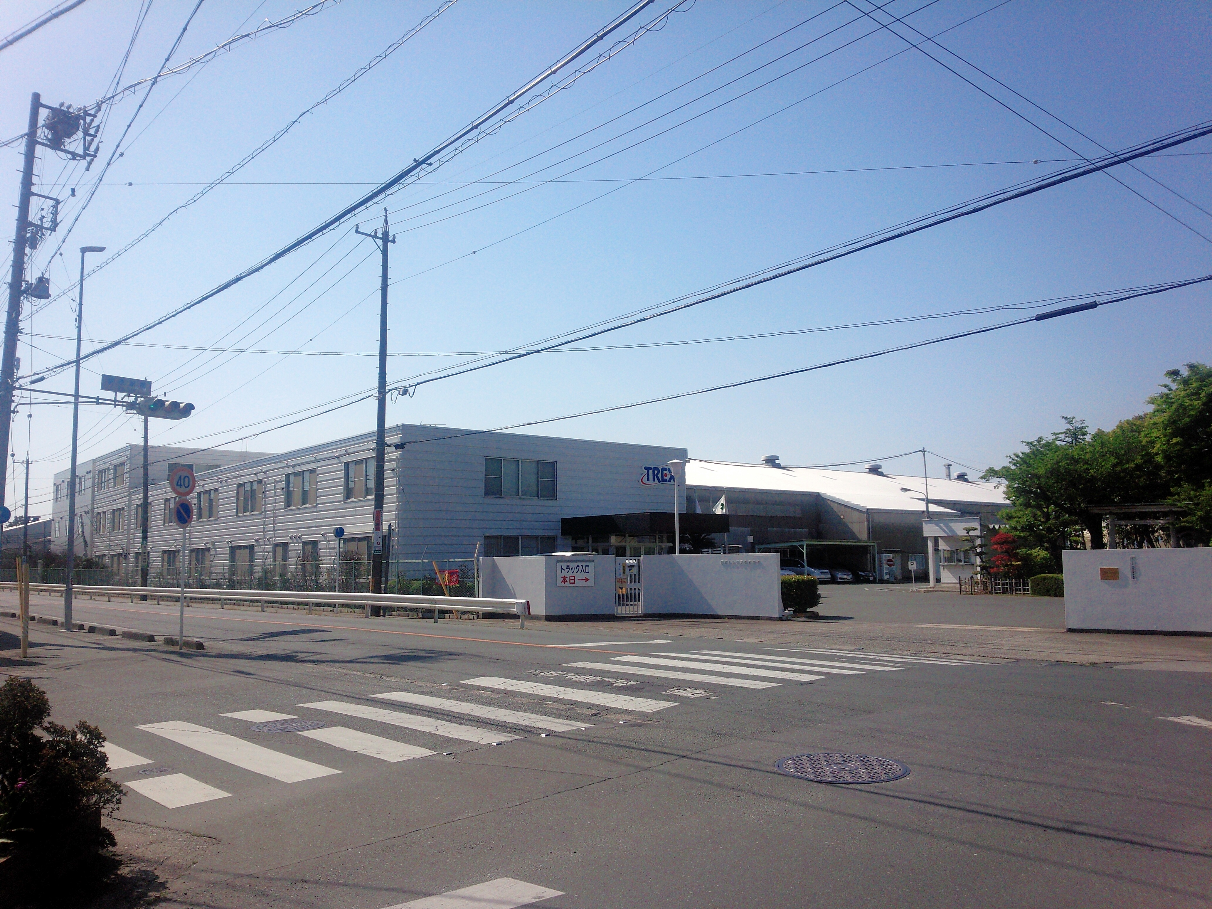 Headquarters of OSG Corp. (オーエスジー株式会社), located at 350 Minamiyamashinden, Ina-cho, Toyokawa, Aichi, Japan